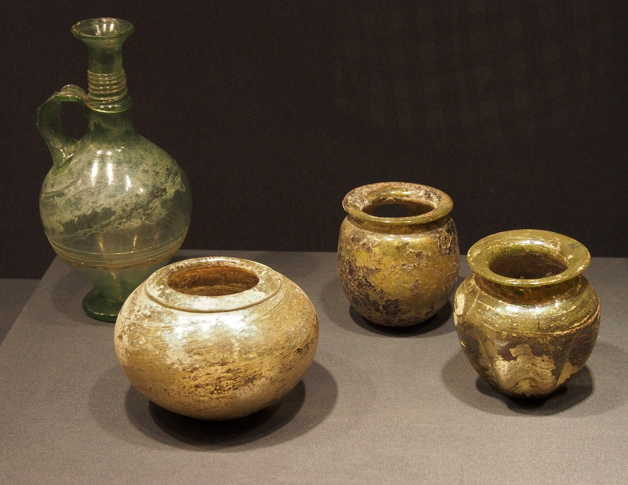 Roman glassware; oil and parfum containers. Late Empire.